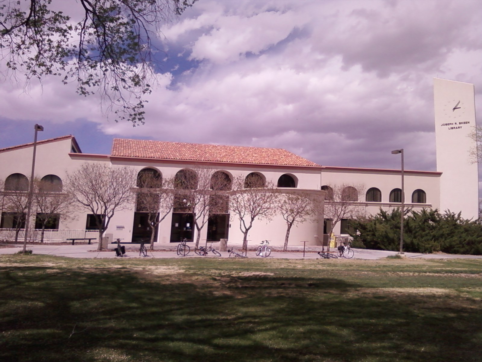 Joseph Skeen Library